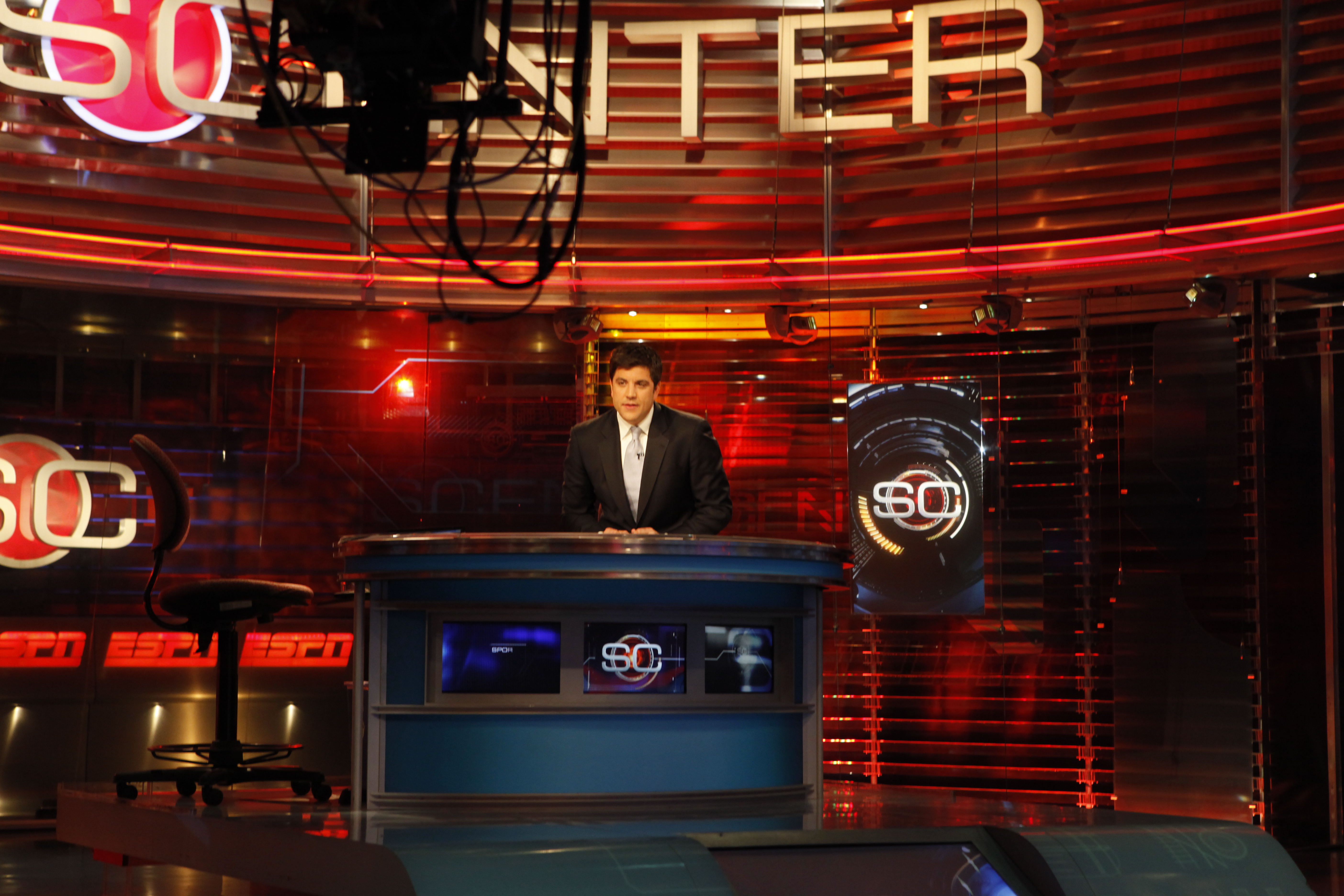 "Twenty-nine cadets toured the ESPN campus in Bristol, Conn., for a behind the scenes look at the "worldwide leader in sports" on March 31. The cadets helped anchors Hannah Storm and Josh Elliott with their top 10 plays of the day during a morning segment of SportsCenter. Cadets also participated in "Sports Nation" and "Baseball Tonight" during their day-long visit. ESPN broadcast seven hours of programming, featuring cadets and various clubs, from West Point last Veterans Day. (Photo by Tommy Gilligan/Pointer View)" This file has an extracted image: File:Josh Elliott in Sportscenter studio CROP.jpg.